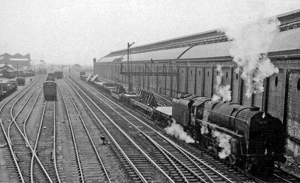 Down freight passing Bank Top Station, Darlington. View southward, towards York etc.; ex-North Eastern East Coast Main Line. At Darlington Bank Top, the Through lines, mainly for the intensive freight traffic, were located on the east side of the Station, which actually was on a loop to the west; the Marshalling Yard and Goods Depot was on the left (east) in this view. The locomotive is BR Standard 9F 2-10-0 No. 92193.